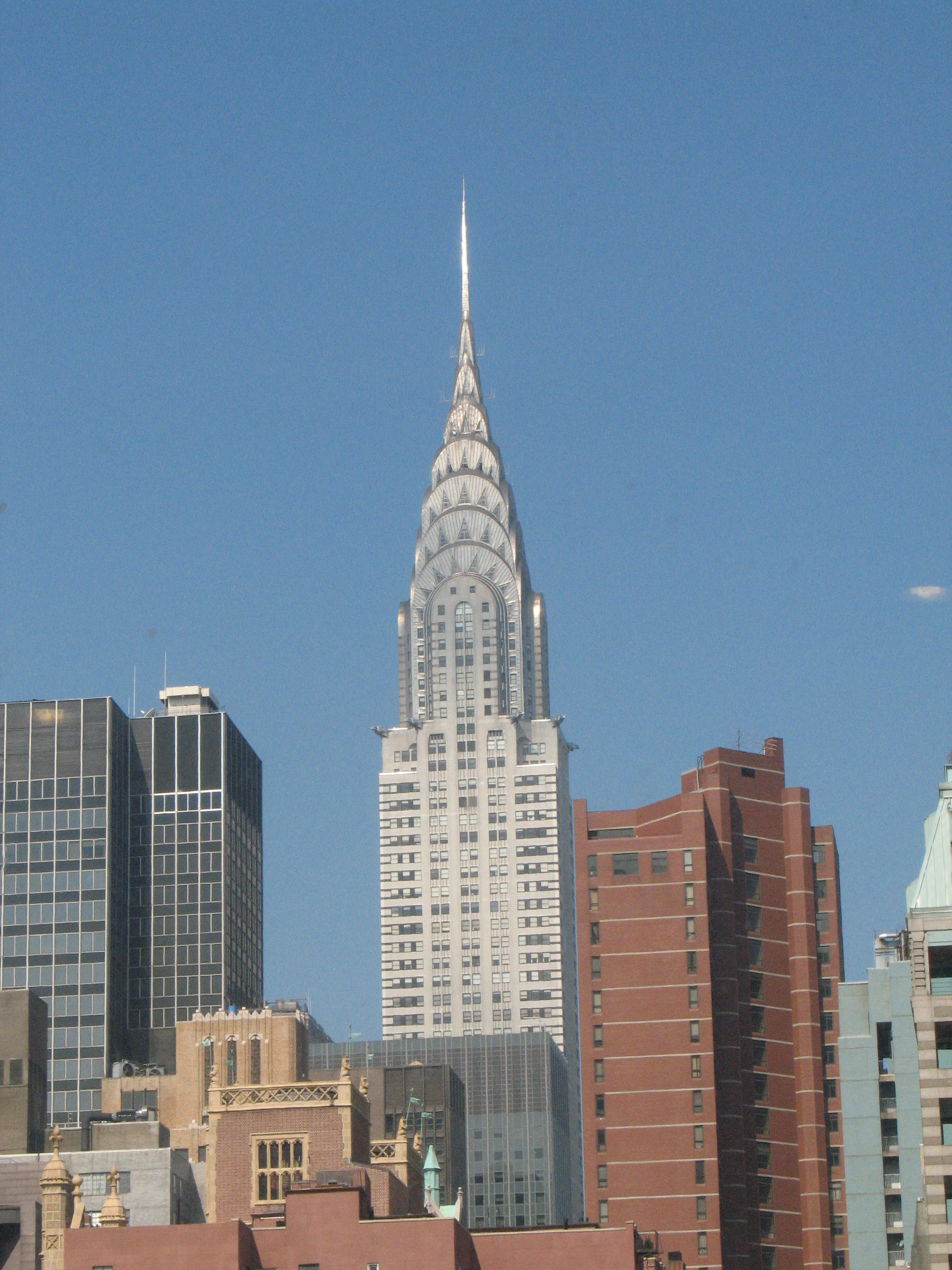 The Chrysler Building in New York City, seen from the UN building